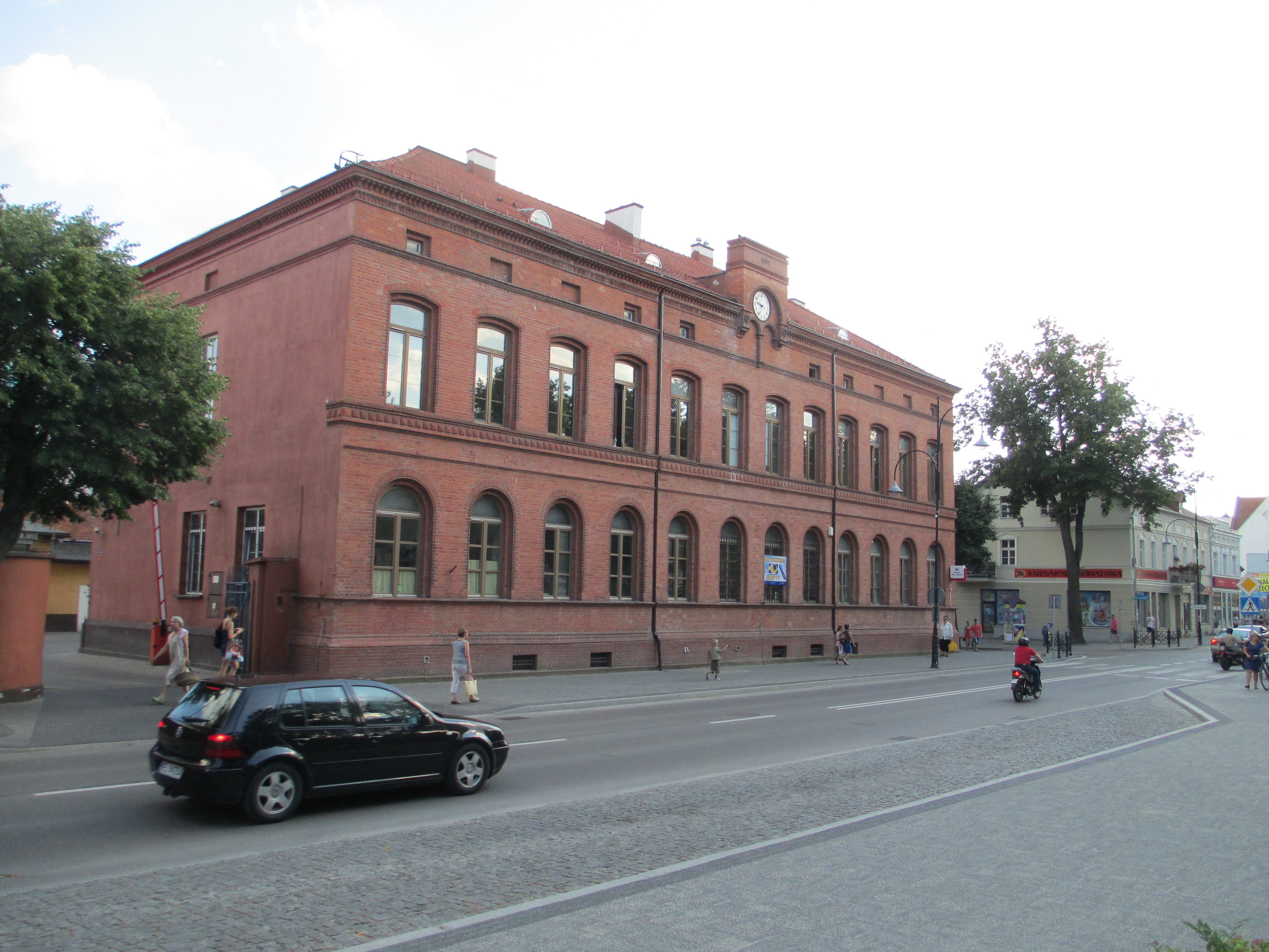 Elk - Poczta Glowna